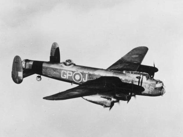 An Avro Lancaster Mk.I bomber (s/n W4113) "GP-J" of No. 1661 Heavy Conversion Unit, Royal Air Force, with Merlin XX engines of the Royal Air Force in flight in January 1944. This aircraft served with No. 49 Sqn until early 1942, then with No. 156 Sqn. In late 1943 it went to 1661 HCU and finally became a ground instructional airframe in November 1944.[1]